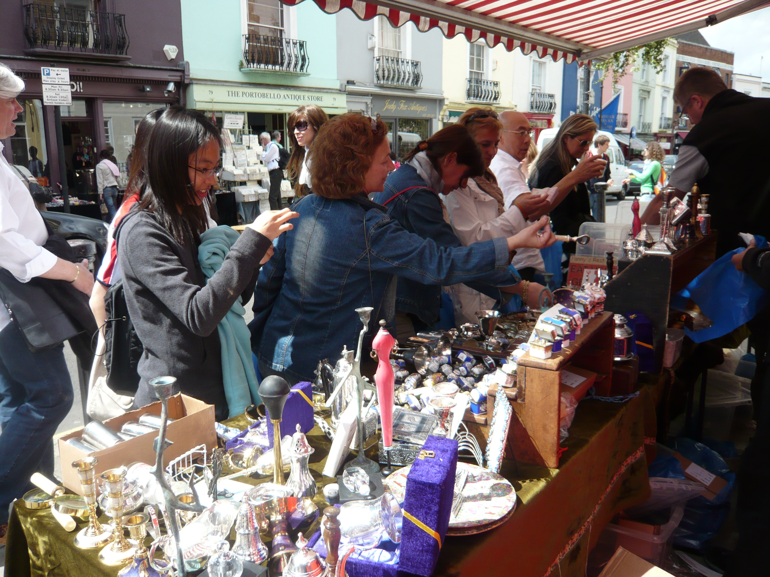 Portobello Road Market, London, United Kingdom